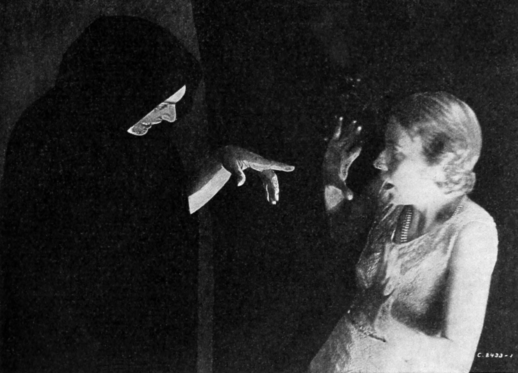 Promotional photograph for the CBS Radio series The Detective Story Hour, the program that introduced The Shadow to radio audiences. The character was initially played by James La Curto.